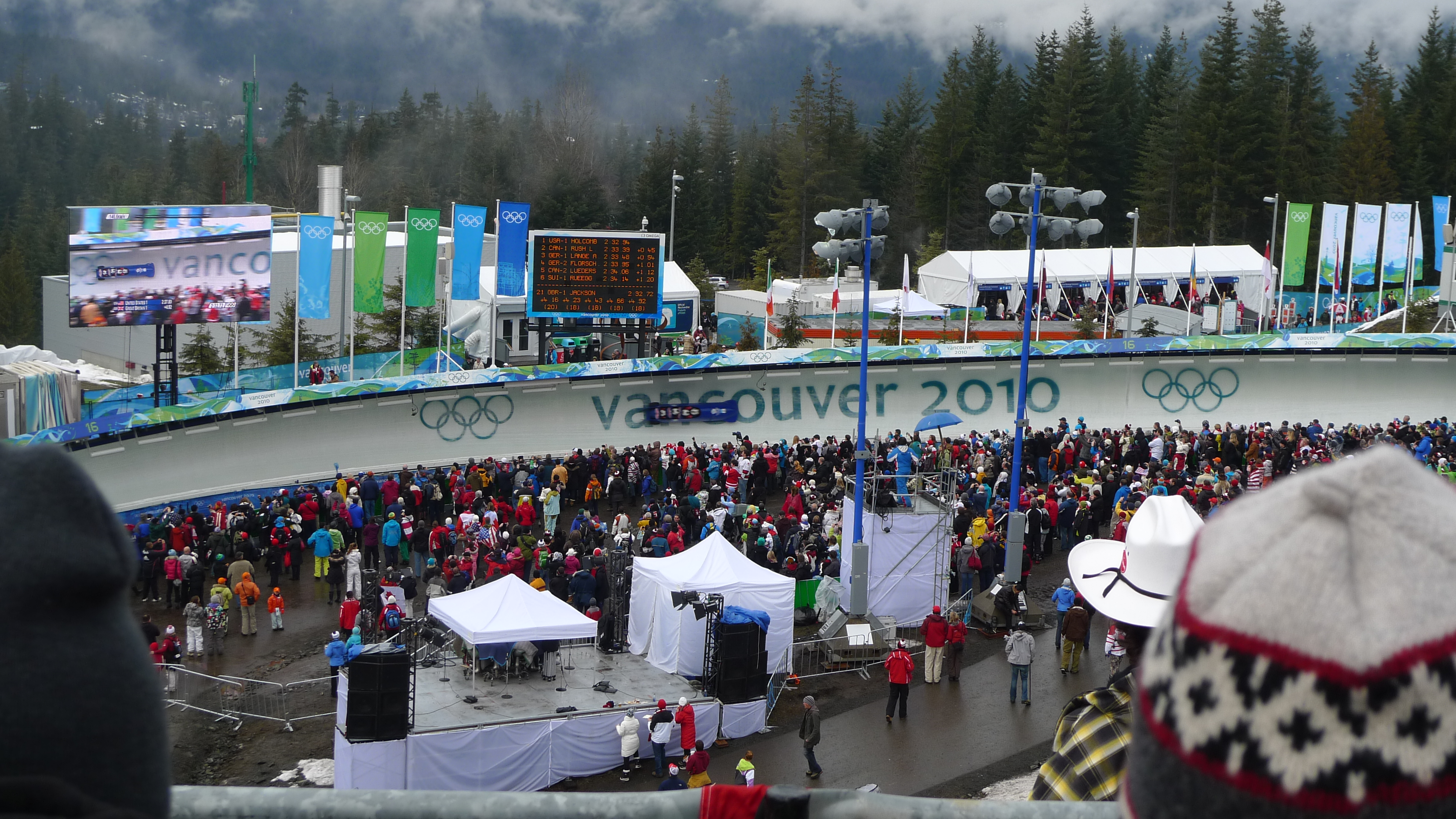 4-men bobsleigh at the 2010 Winter Olympics - Run 4Great Britain-1 - pilot: John James Jackson; behind him (in order): Allyn Condon, Dan Money and Henry Odili Nwume